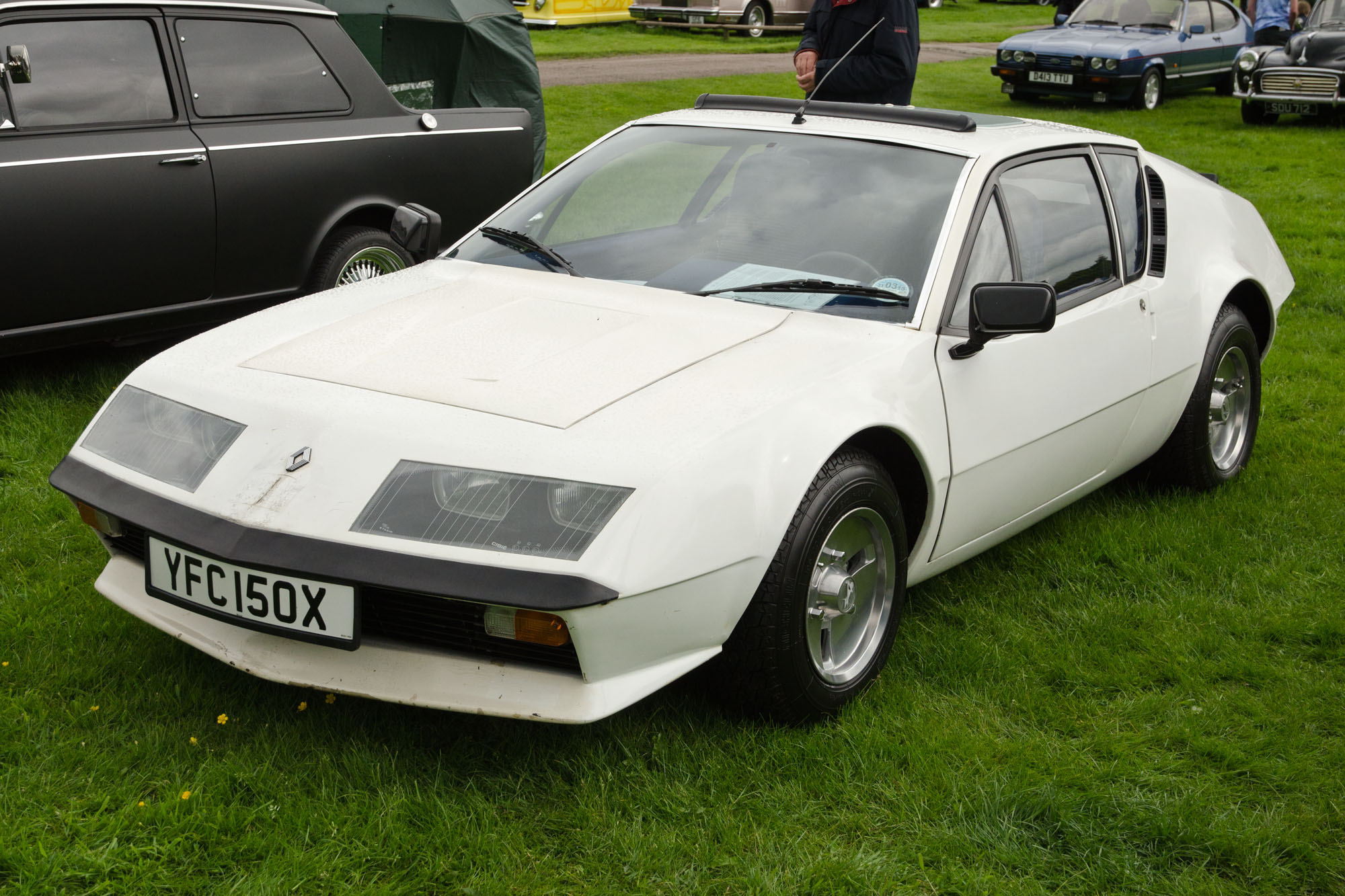 Capesthorne Hall Classic Car Show 25/05/2014